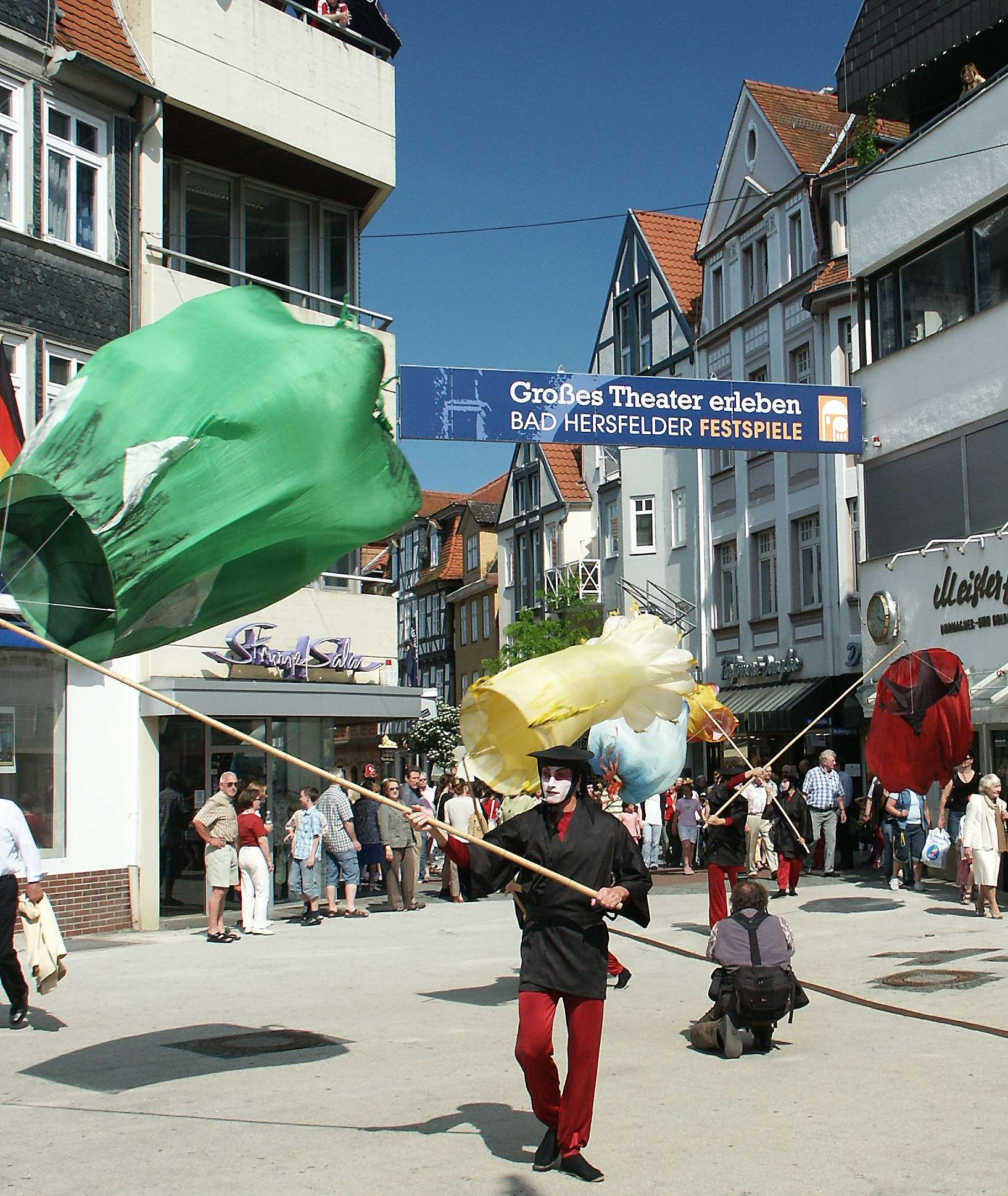 Street theater on the occasion of opening of Bad Hersfeld open-air festival in 2006)